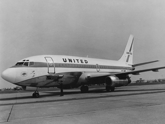 UAL B737